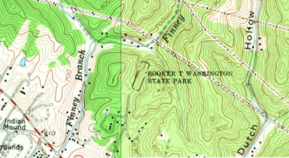 A mosaic of two 1958 USGS topographic maps (Saint Albans and Pocatalico Quandrangles) in order to illustrate the location of Booker T. Washington State Park.